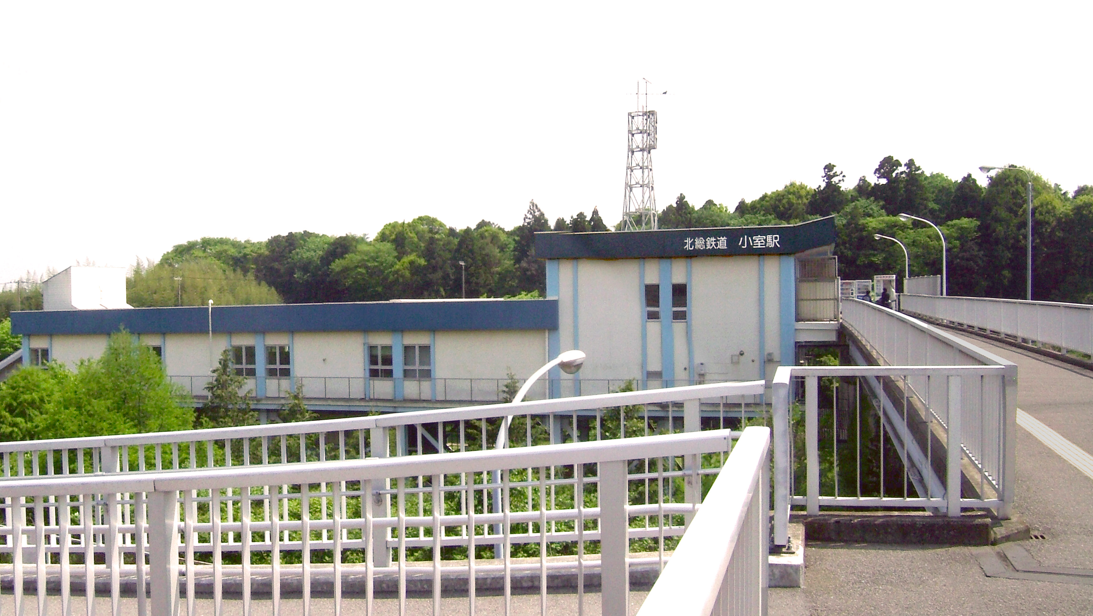 The Building of Komuro Station on the Hokusō Railway in Funabashi city, Chiba prefecture, Japan